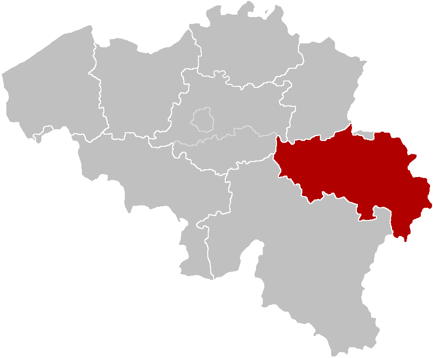 Map of Diocese of Liege